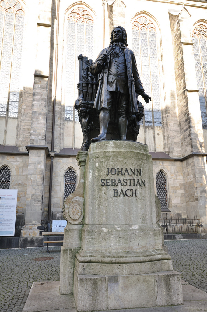 Statue of Johann Sebastian Bach at Thomaskirsche in Leipzig, Germany